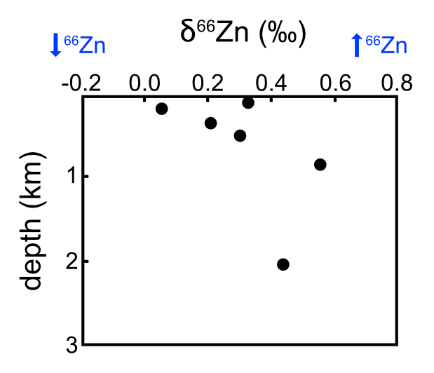 Vertical 66Zn isotope profile in the Atlantic ocean. Data from: Boyle et al., 2012. GEOTRACES IC1 (BATS) contamination-prone trace element isotopes Cd, Fe, Pb, Zn, Cu, and Mo intercalibration. Limnol. Oceanogr.: Methods 10, 653-665.